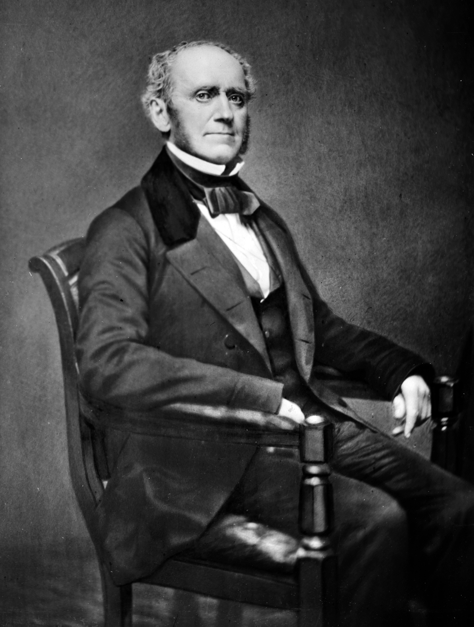 Photograph of Fitz-Greene Halleck, (July 8, 1790 – November 19, 1867) an American poet, born and died at Guilford, Connecticut.